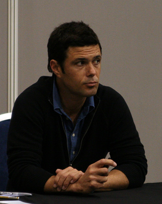 Carlos Bernard at London Expo in 2006